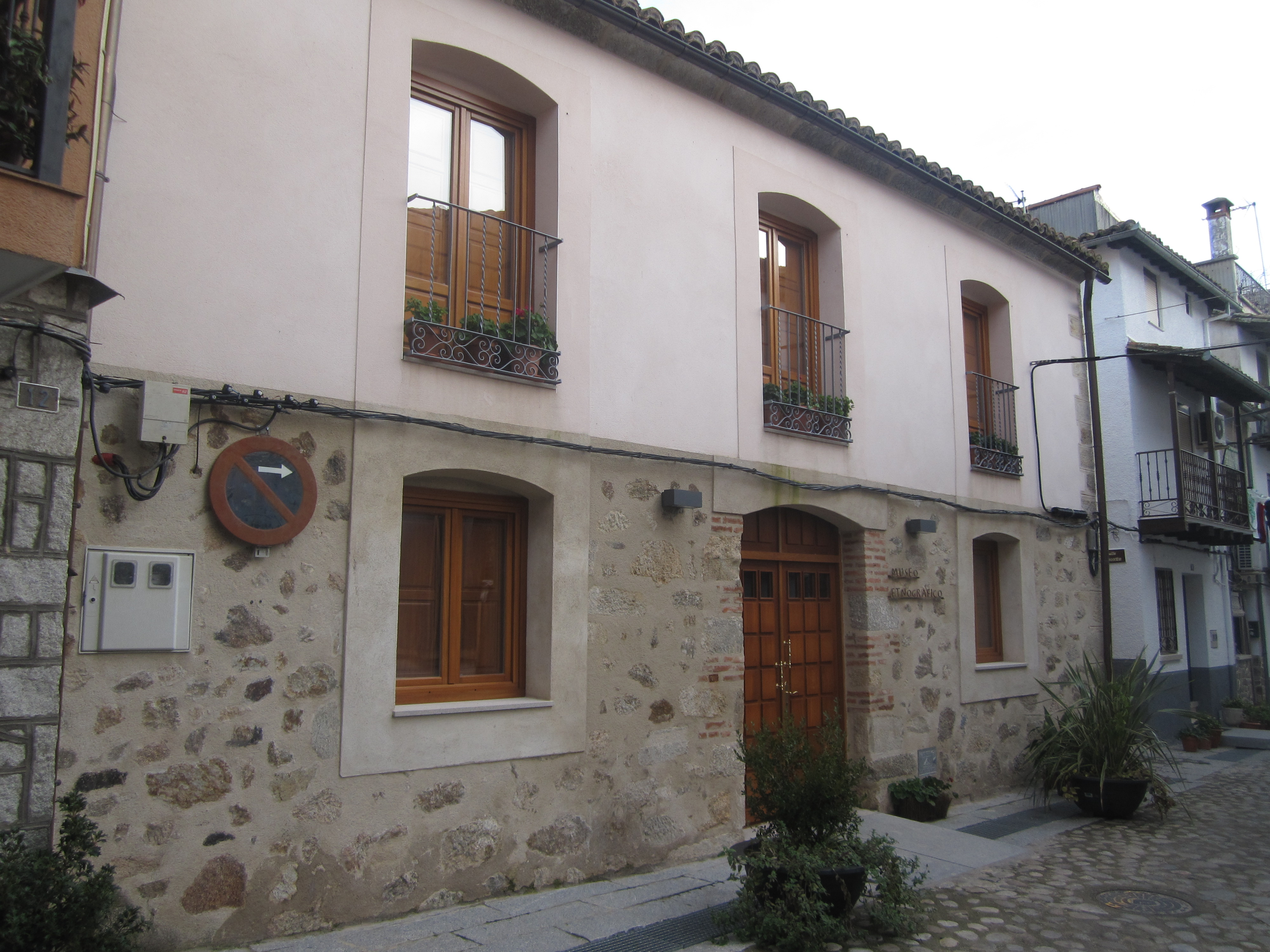 Candeleda's Ethnographic Museum, Spain.